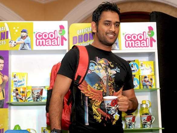 Cool Maal launches official merchandise of Mahendra Singh Dhoni